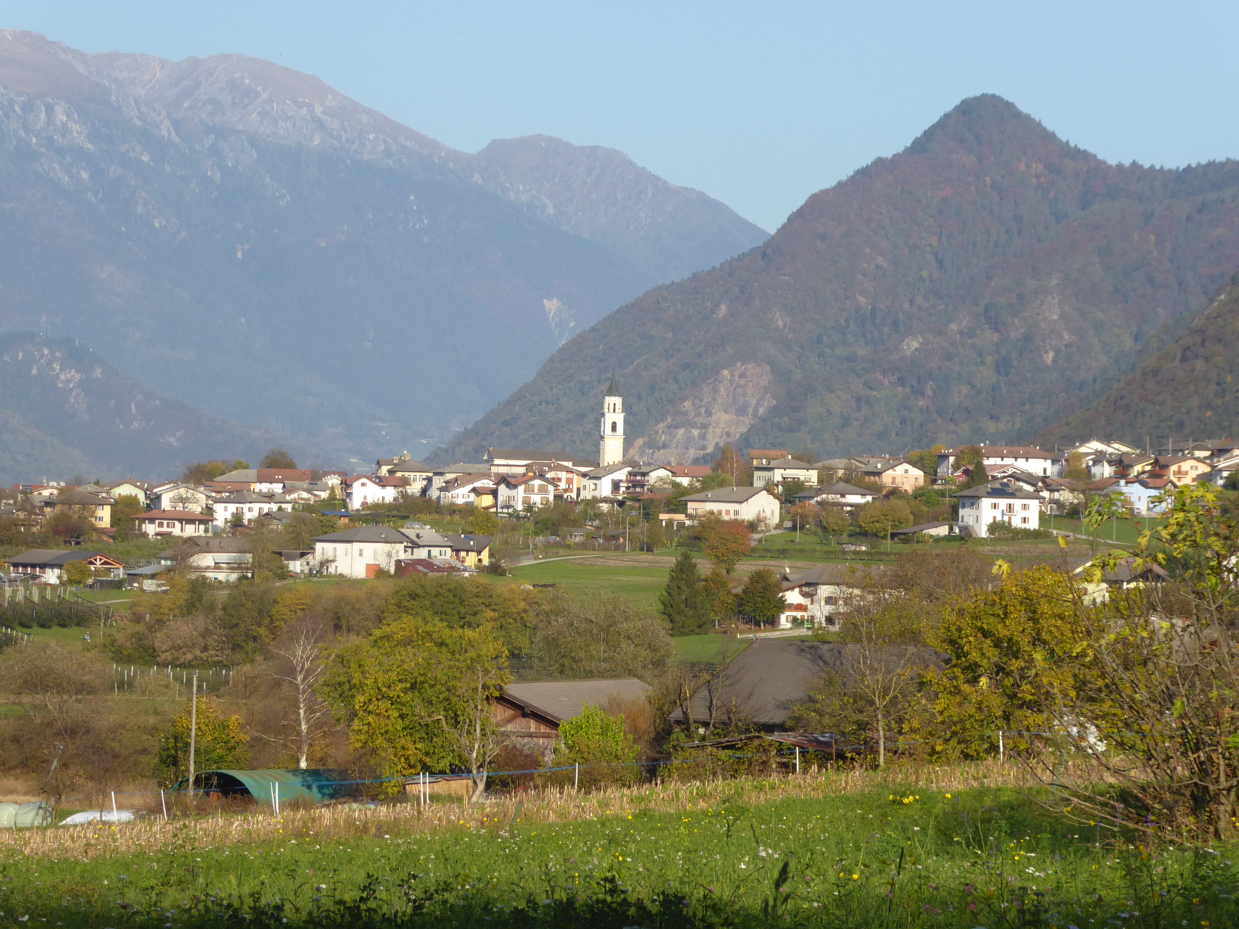 View of the village of Barco (Levico Terme, Trentino, Italy)